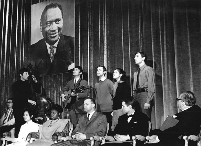 Berlin, Gala Celebration of Paul Robeson's 70th Birthday Press Agency Zentralbild, photographer Franke bgm-gr. 7 April 1968: Gala event for the 70th birthday of Paul Robeson. The German Democratic Republic's Salute to Paul Robeson on the 70th birthday of the great Negro singer (9 April) began on 7 April 1968 with a gala event of the Paul Robeson Committee of the GDR in the Apollo Hall of the German State Opera. Leading figures of the the GDR and other guests participated in this event, which demonstrated solidarity with the oppressed American Negroes and all peoples fighting for their freedom. On our photo: members of the Berlin musical group Oktoberclub singing, with Hartmut König (guitar). In the front row (from right) Prof. Wolfgang Heinz, director of the German Theater of Berlin, actor Dieter Mann, the singer Hermann Hähnel (of the GDR), Bernice Reagon (USA), as well as a representative of Vietnam who is working in the GDR on an internship.